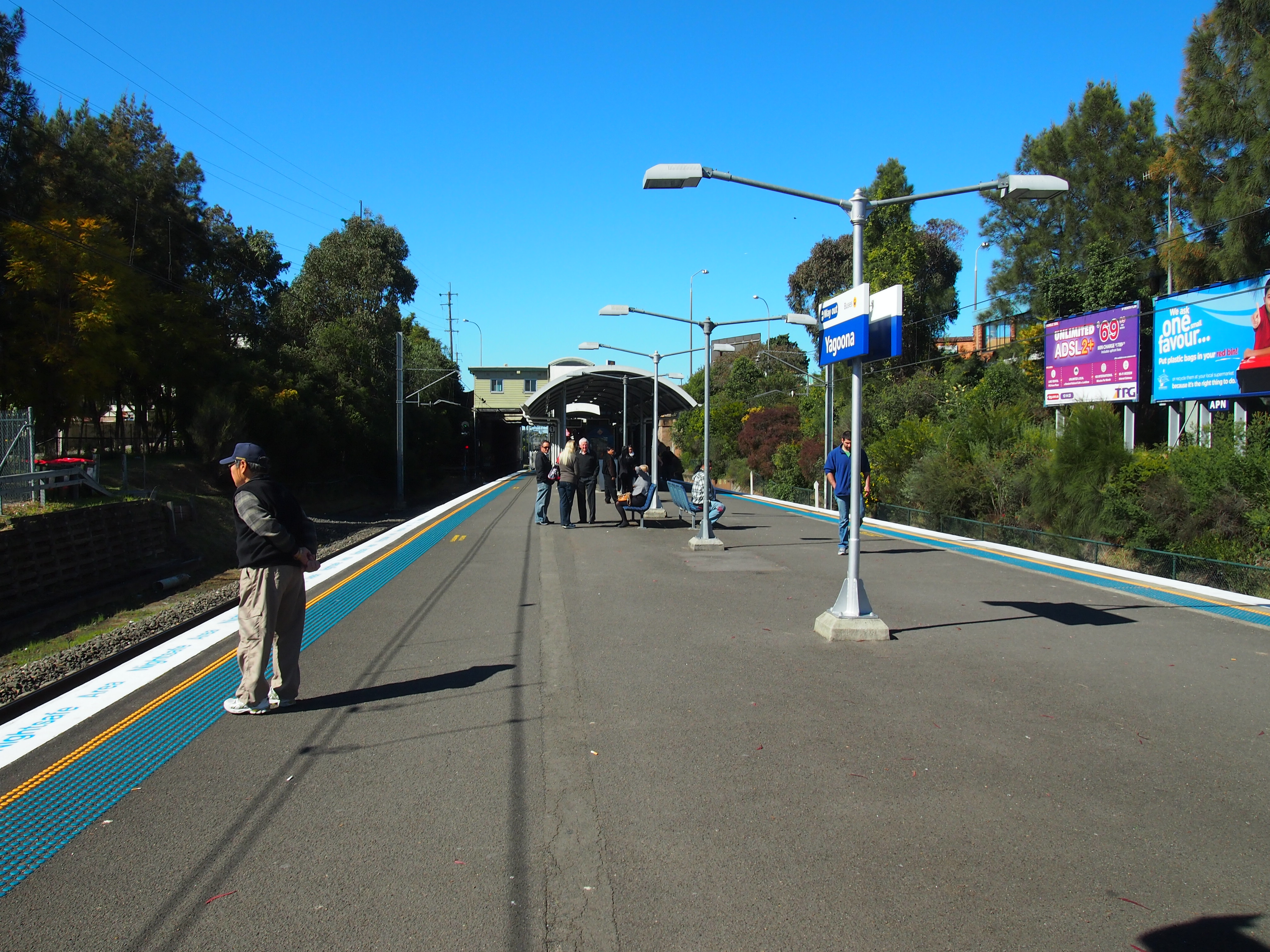 The platform of Yagoona Railway Station, looking south (towards Bankstown)